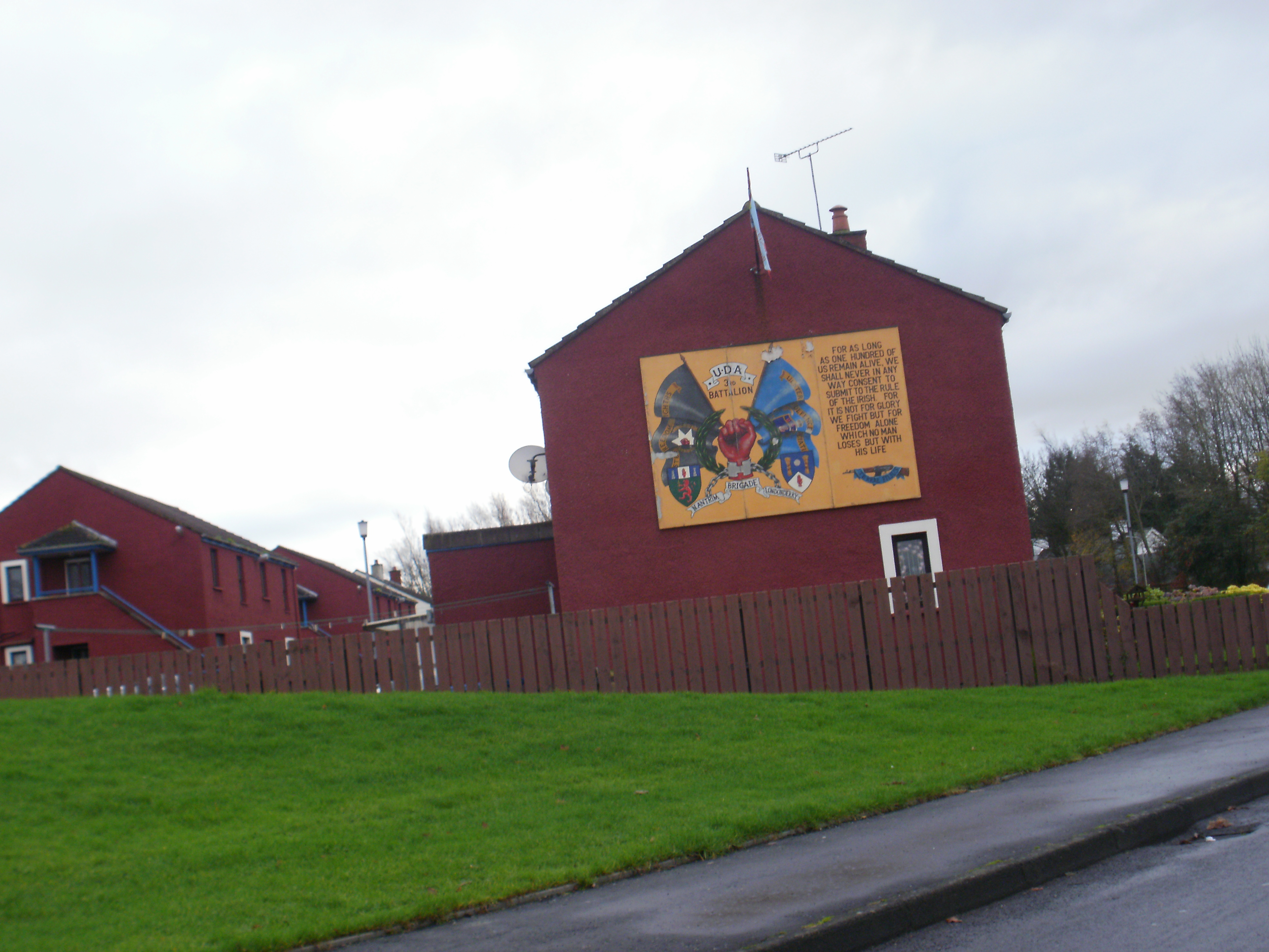 A loyalist mural in Carnany Estate in Ballymoney,County Antrim,Northern Ireland.This mural is showing support for the illegal paramilitary group-the Ulster Defence Association.